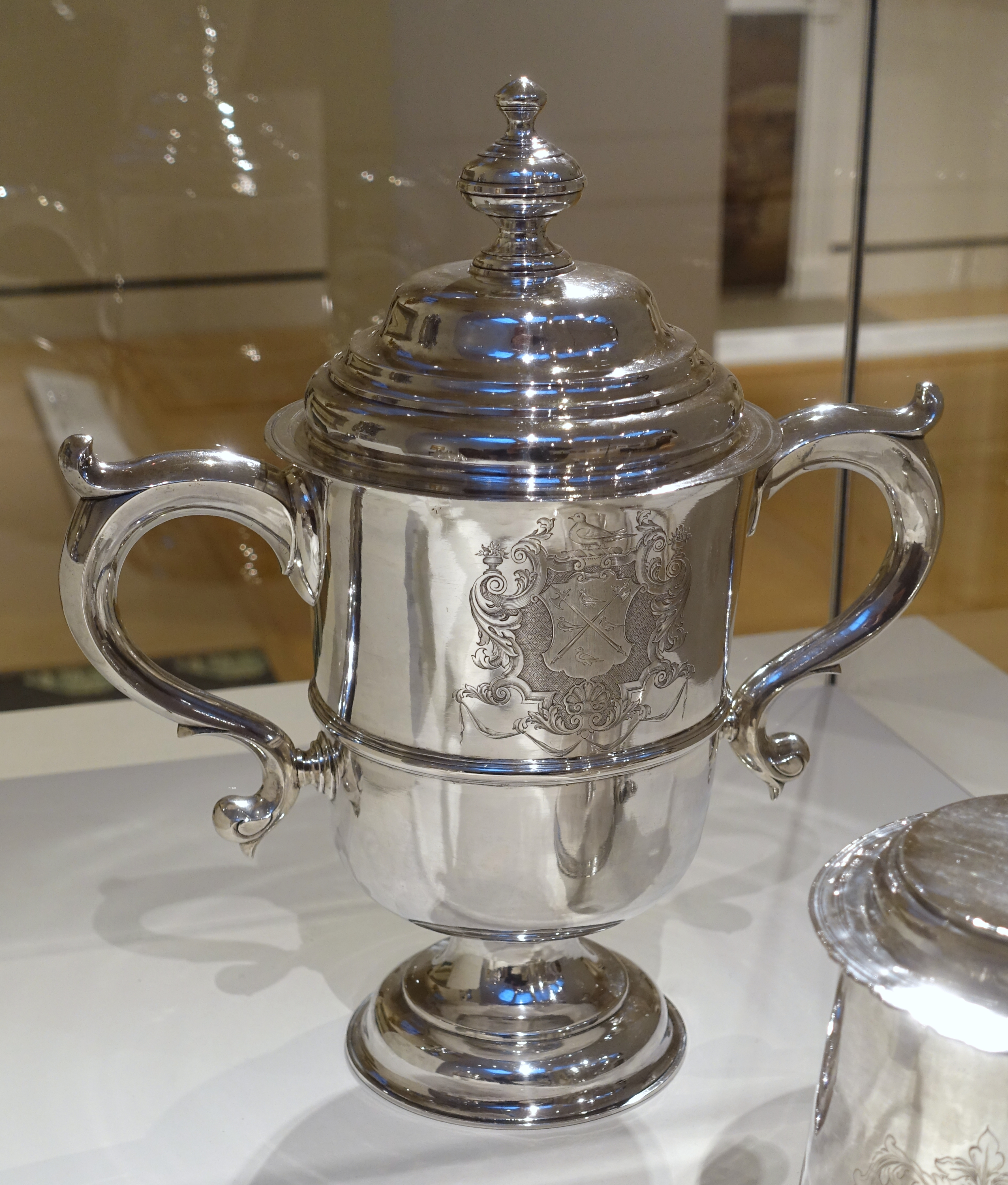 Exhibit in the Peabody Essex Museum - Salem, Massachusetts, USA.